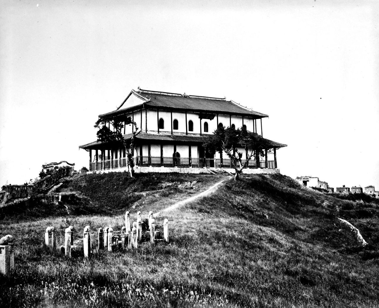 Zhenhai Tower, Fuzhou, by George Ernest Morrison